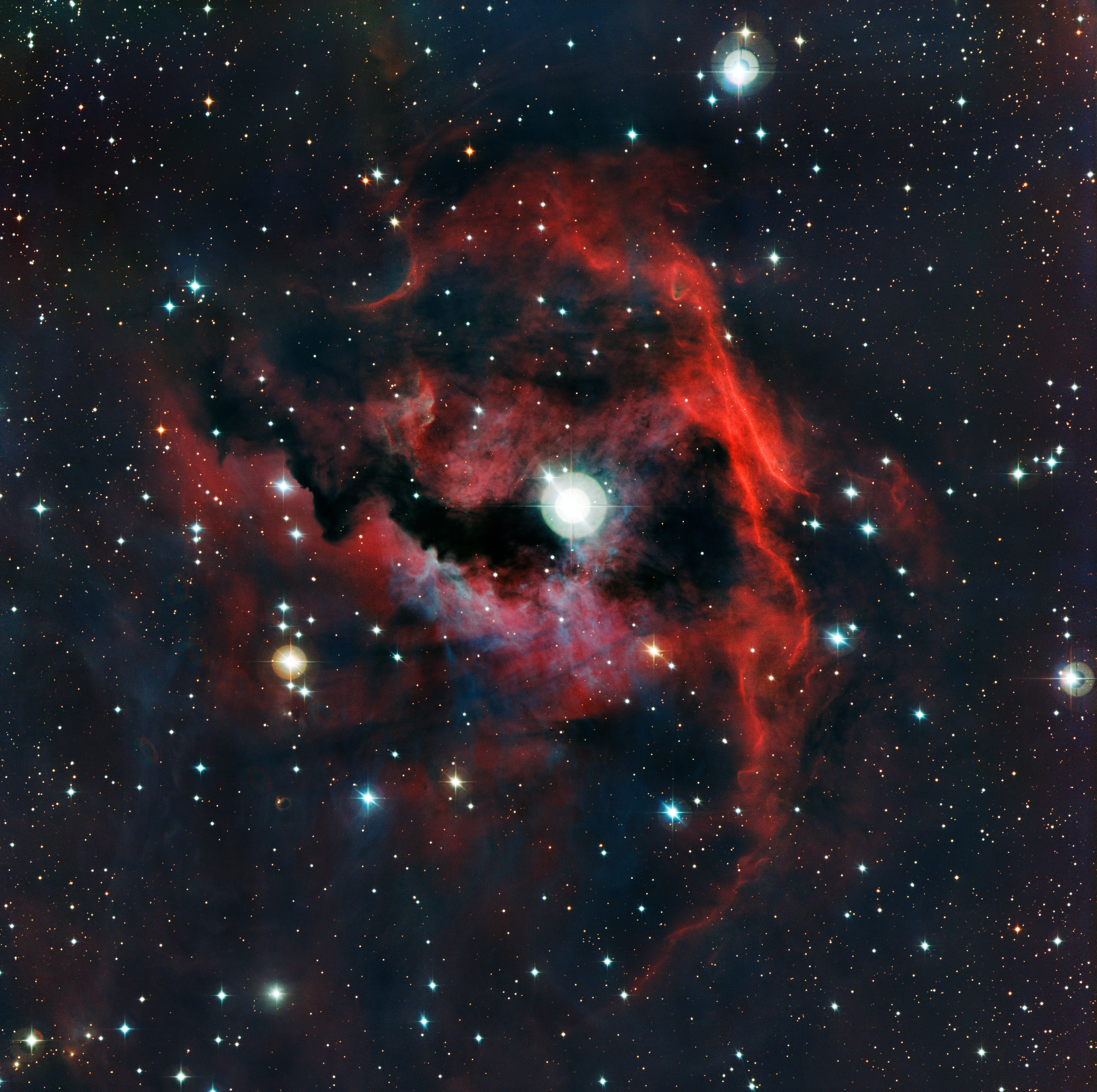 This image from ESO’s La Silla Observatory shows part of a stellar nursery nicknamed the Seagull Nebula. This cloud of gas, known as Sh 2-292, RCW 2 and Gum 1, seems to form the head of the seagull and glows brightly due to the energetic radiation from a very hot young star lurking at its heart. The detailed view was produced by the Wide Field Imager on the MPG/ESO 2.2-metre telescope.